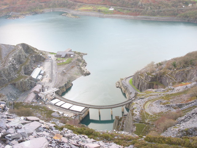 The Dinorwig HEP station inlet and outlet pool This pool was formed by the drowning of Sinc Robin and Sinc Muriau at the bottom of the quarry.